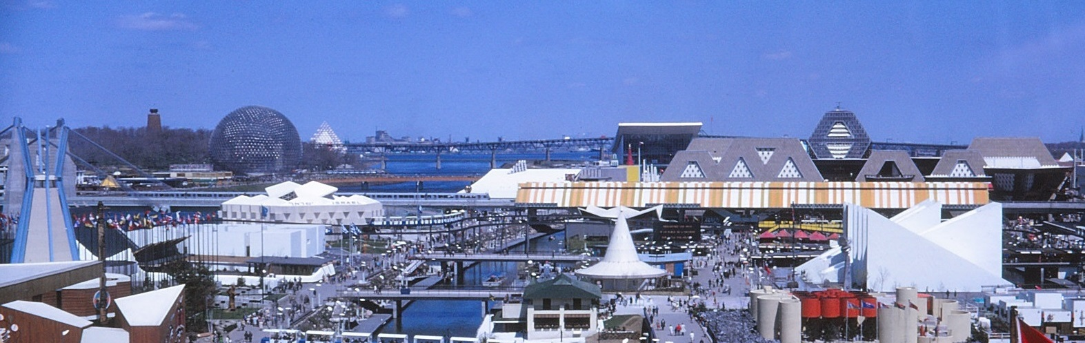 The Expo-Express crossing the Pont des Îles bridge, approaching the station on Notre-Dame island. Expo 67, Montreal, Quebec , Canada, 1967.